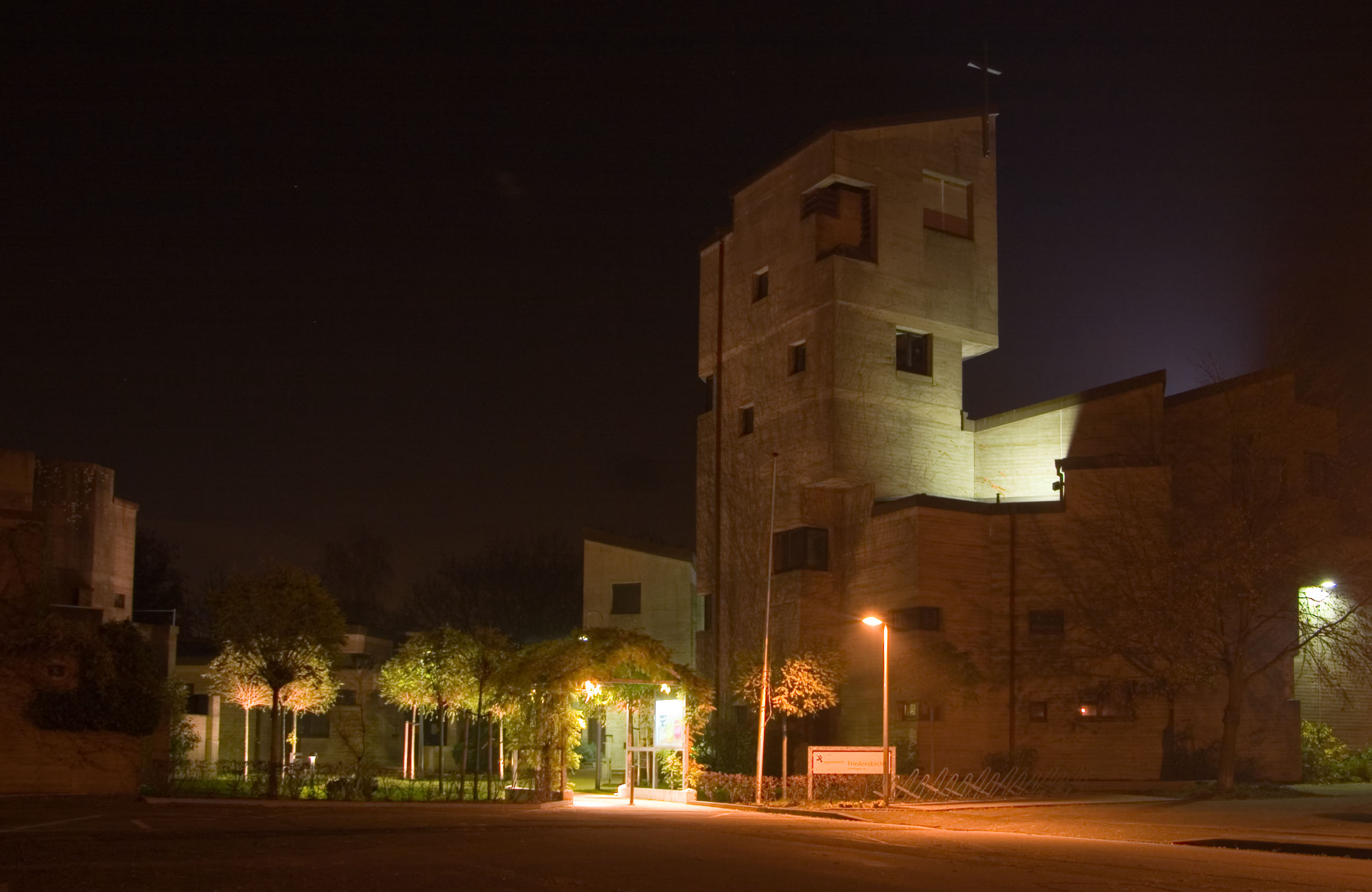 Protestant church Friedenskirche in Baumberg